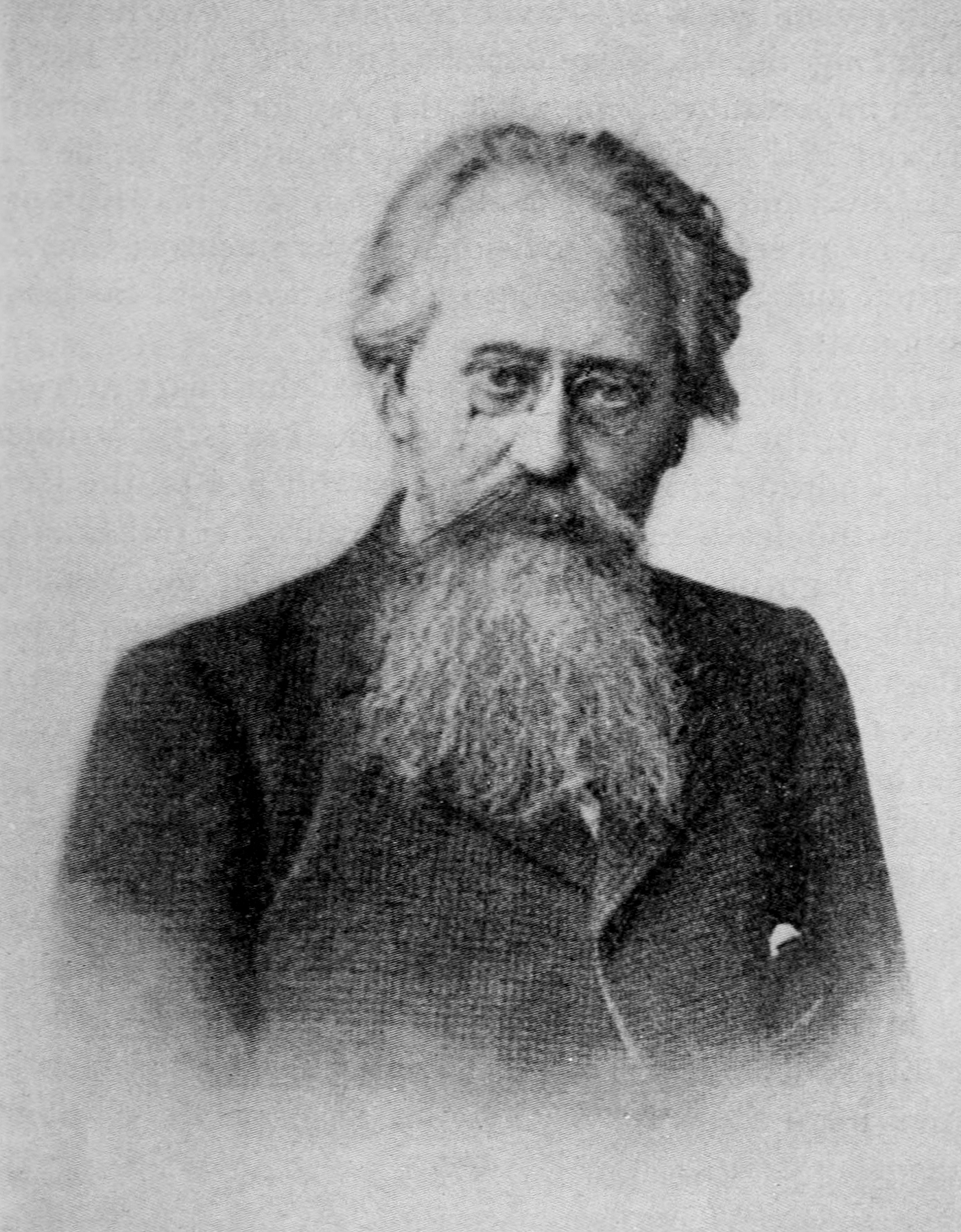 Russian critic Nikolay Konstantinovich Mikhailovsky